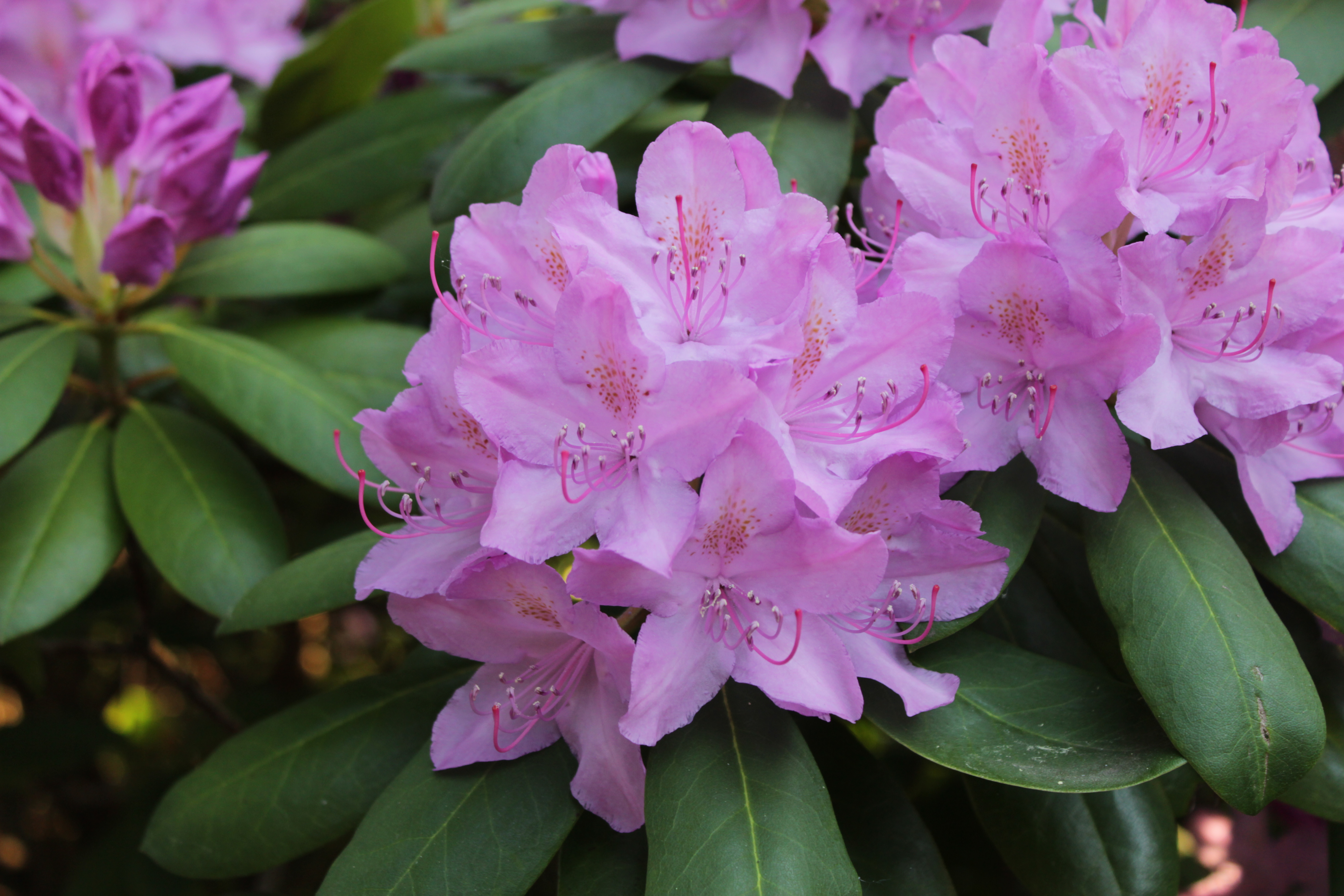 A photo of an inflorescence of a rhododendron with an umbel-like grape.